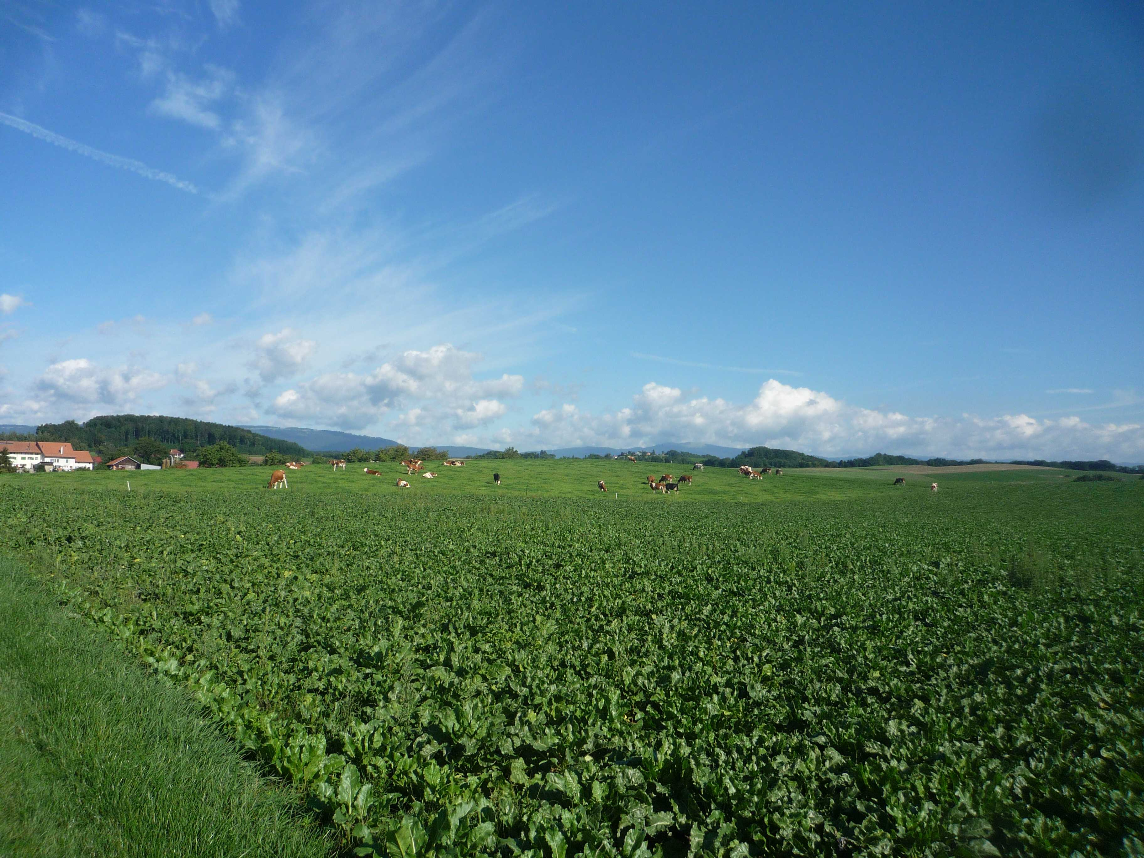 Field outside Gollion, VD, Switzerland